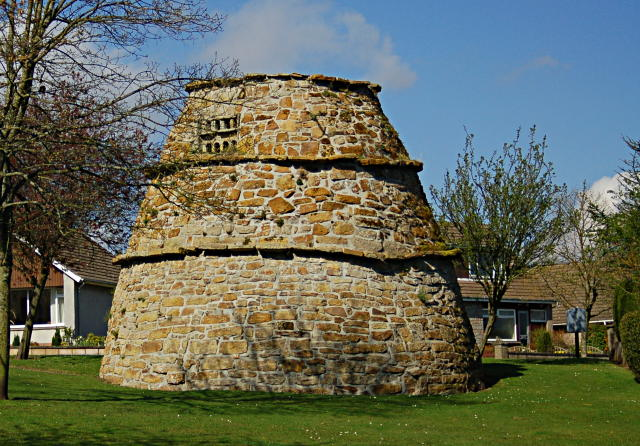 Bogward Doocot A very nice beehive doocot originally on the Bogward farm some distance from St Andrews. The farm was developed for housing some time in the late 70s or early 80s and the doocot is now surrounded by housing. It has around 800 nest boxes inside with pigeon holes in the top and at the side near the top. The three projecting rings of stone are not floors projecting out but rat barriers to try and prevent vermin from gaining entry.